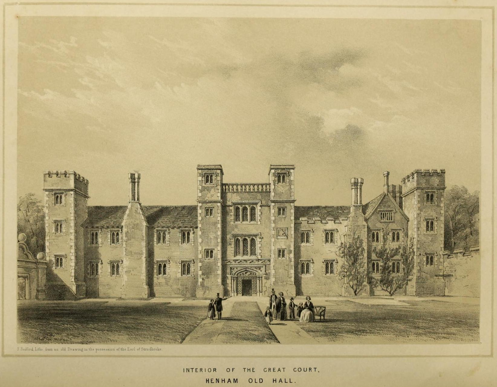 The Tudor mansion of Henham, Suffolk, was probably built for Charles Brandon, Duke of Suffolk but was destroyed by fire in 1773. This lithograph made c. 1845 is based on an old drawing preserved at the later Henham Hall and interprets the appearance of the lost Tudor frontage as seen from within the courtyard. The figures, in costume of the 1840s, are anachronous. It is known that a drawing of these buildings was made soon after the fire.